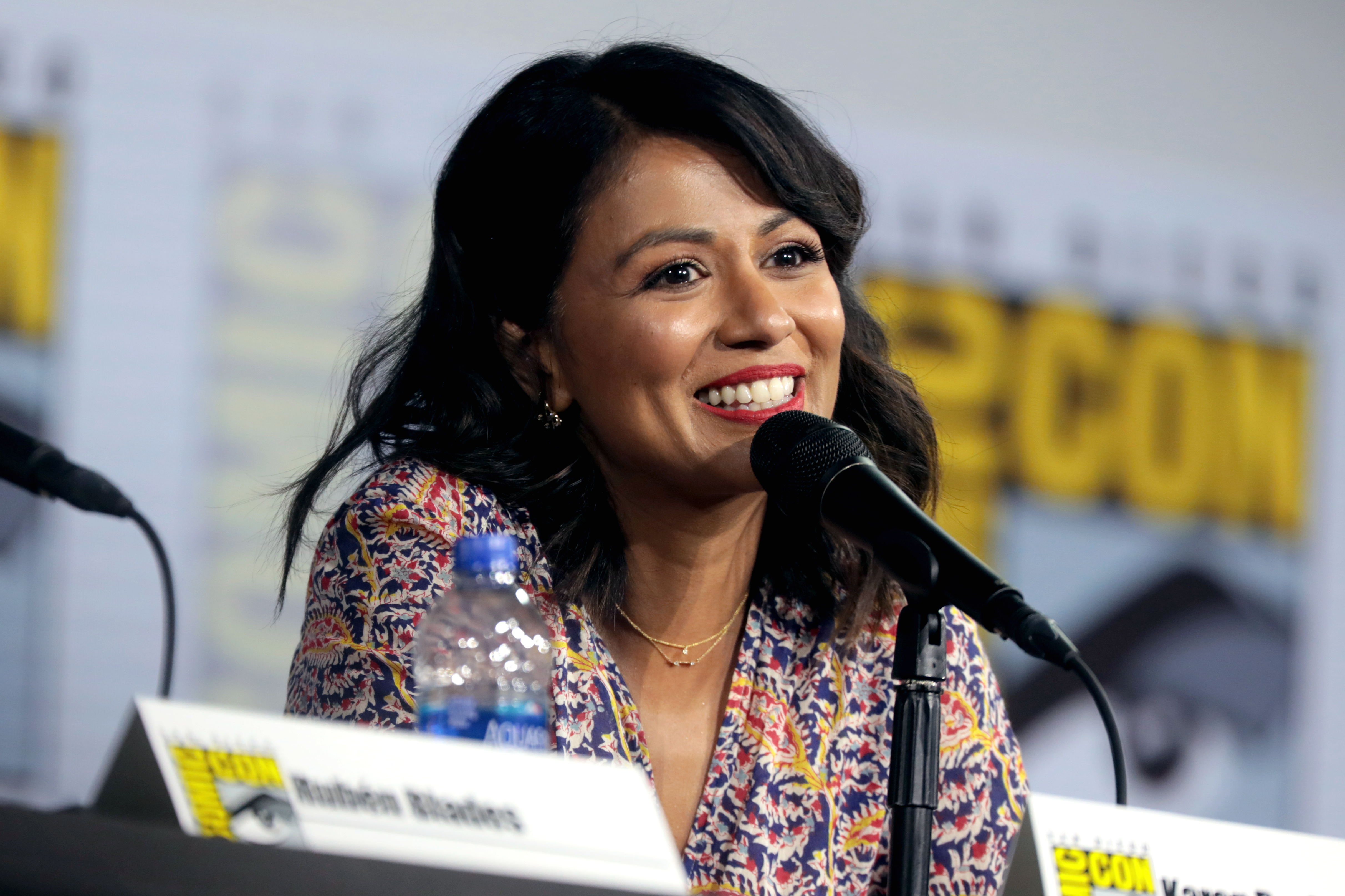 Karen David speaking at the 2019 San Diego Comic Con International, for "Fear the Walking Dead", at the San Diego Convention Center in San Diego, California.